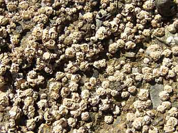 Barnacles Balanus glandula (Balanidae) and Chthamalus fissus (Chthamalidae) on rock surface.